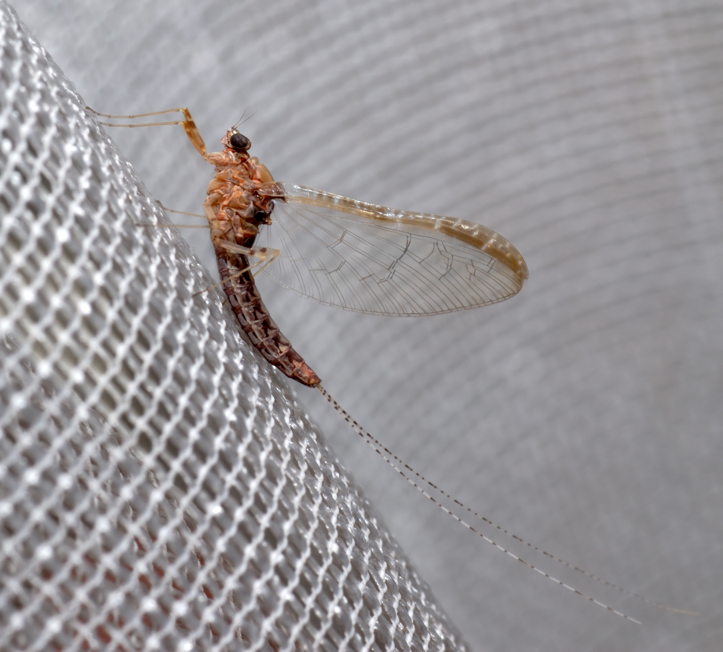 This image shows a Mayfly of the species Cloeon dipterum. Thanks to DocTaxon for identifying this animal.